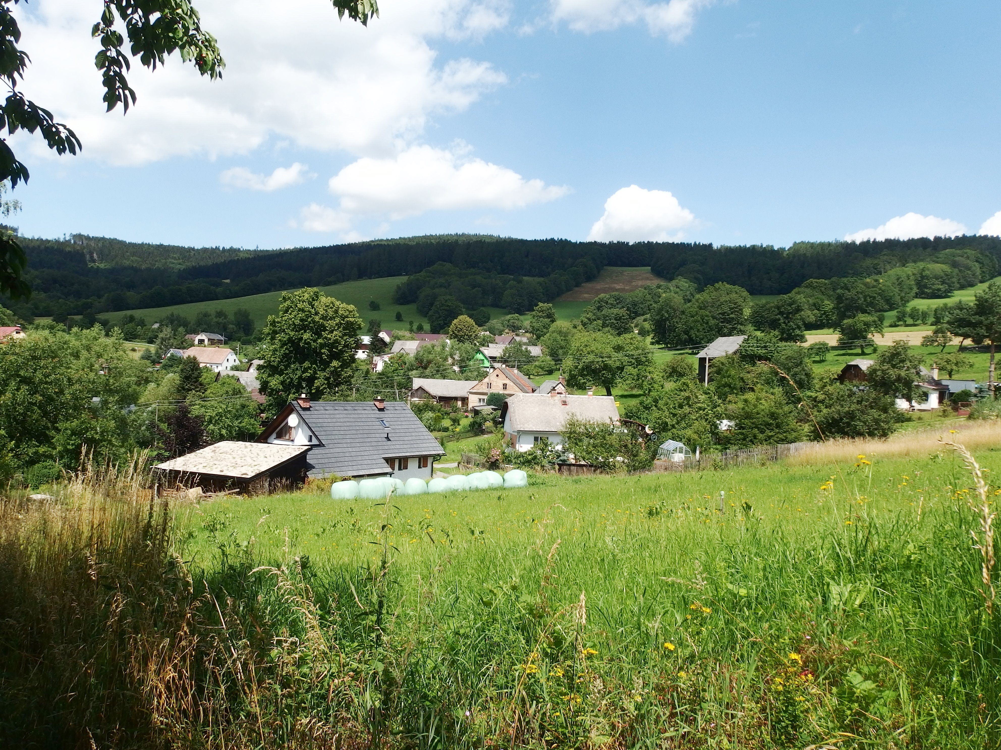 Janoušov, Šumperk District, Czechia.